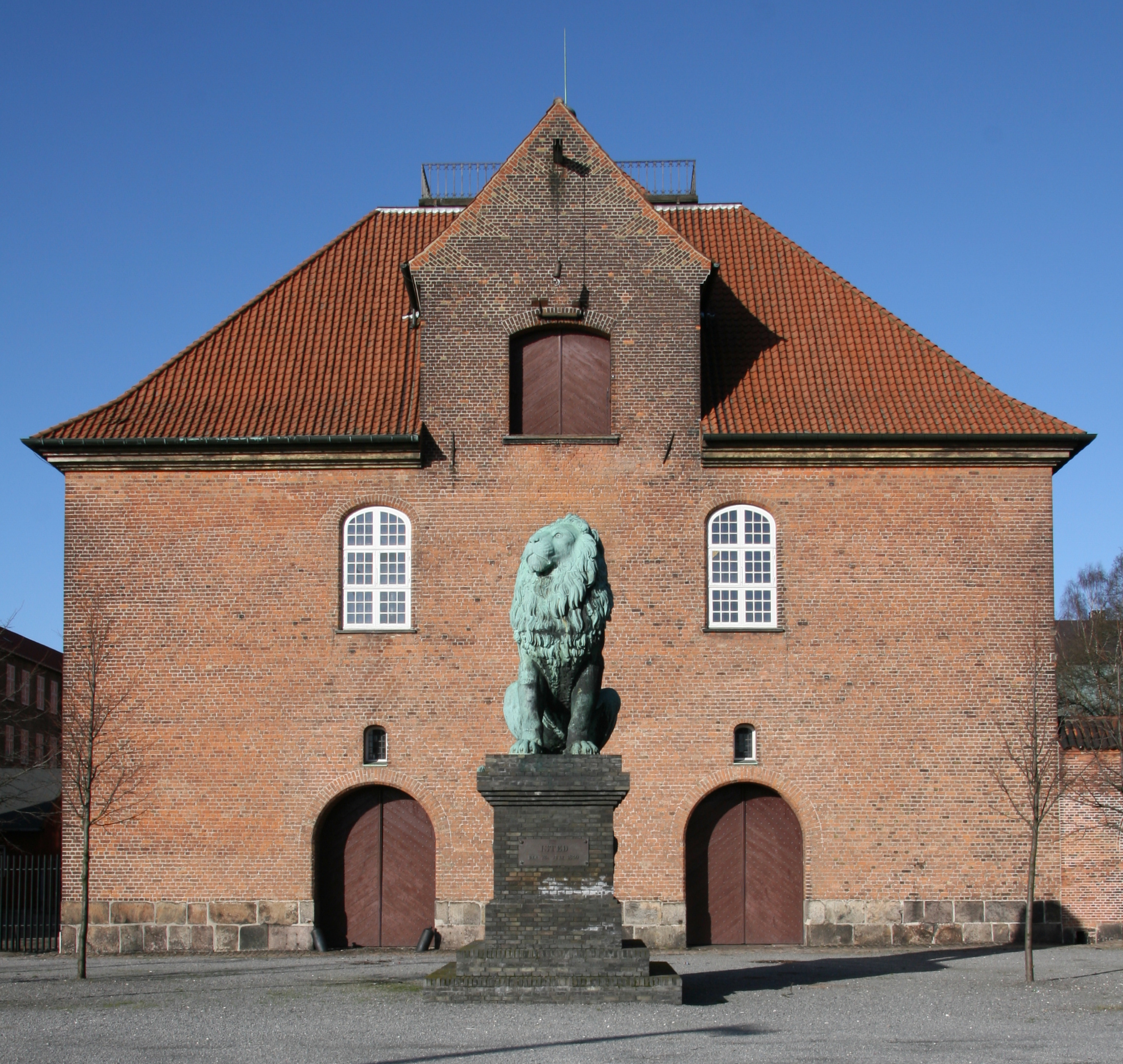 Istedløven (The Isted lion), a lion statue by Herman Wilhelm Bissen, which is a memorial of the battle of Isted (german: Idstedt). Sign reads: "Isted den 20. Juli 1850". First erected in 1862 in Flensburg, Germany, brought to Berlin in 1864 and since 1945 in Copenhagen. In front of the The Royal Danish Arsenal Museum.